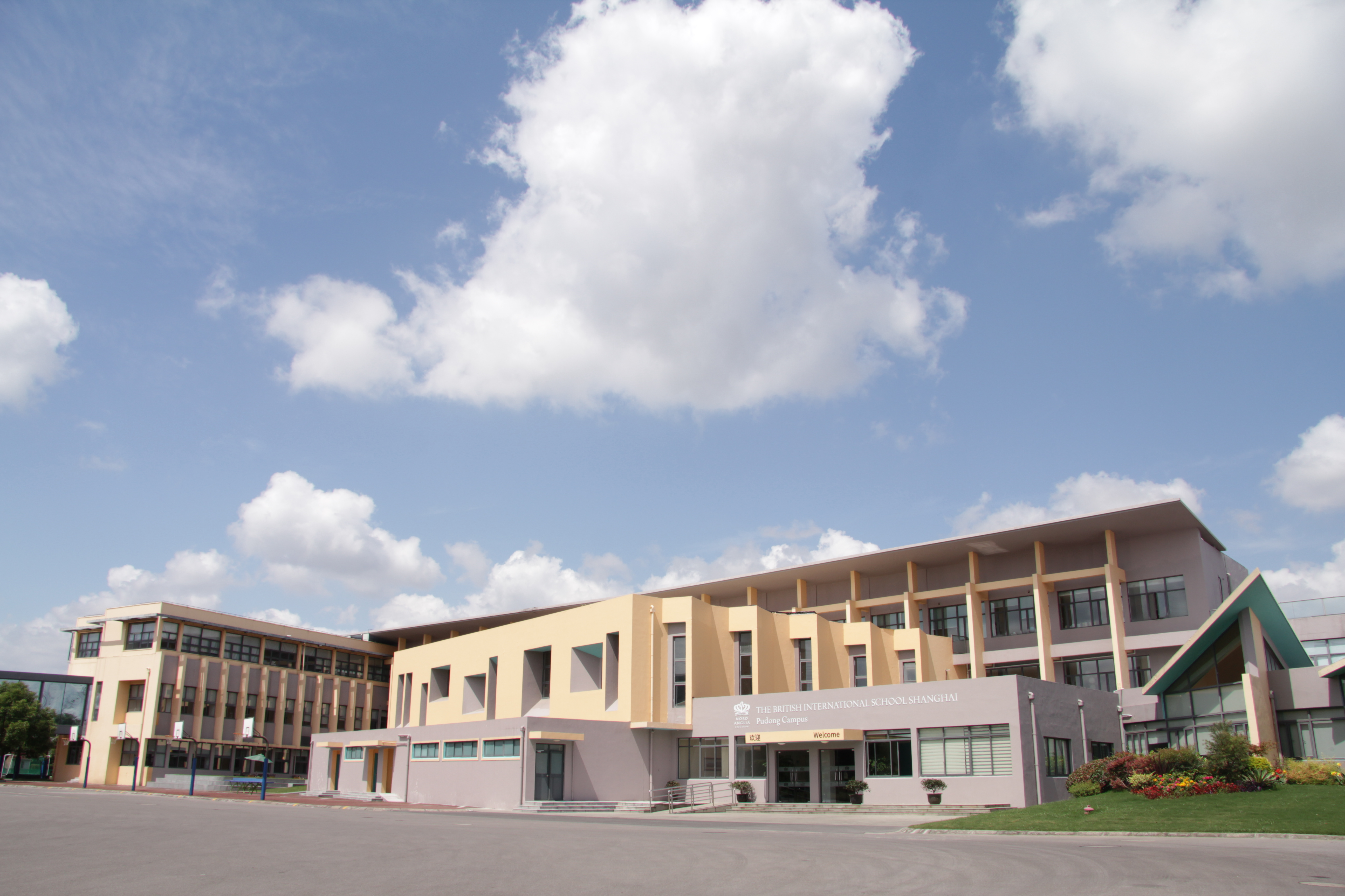 The main entrance of the British International School Shanghai Pudong Campus (now Nord Anglia International School Shanghai Pudong or NAIS Pudong) on a sunny day during school time with no students